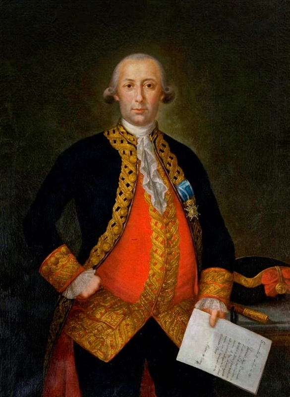 The Spanish General Bernardo de Gálvez, hero of Pensacola's Battle